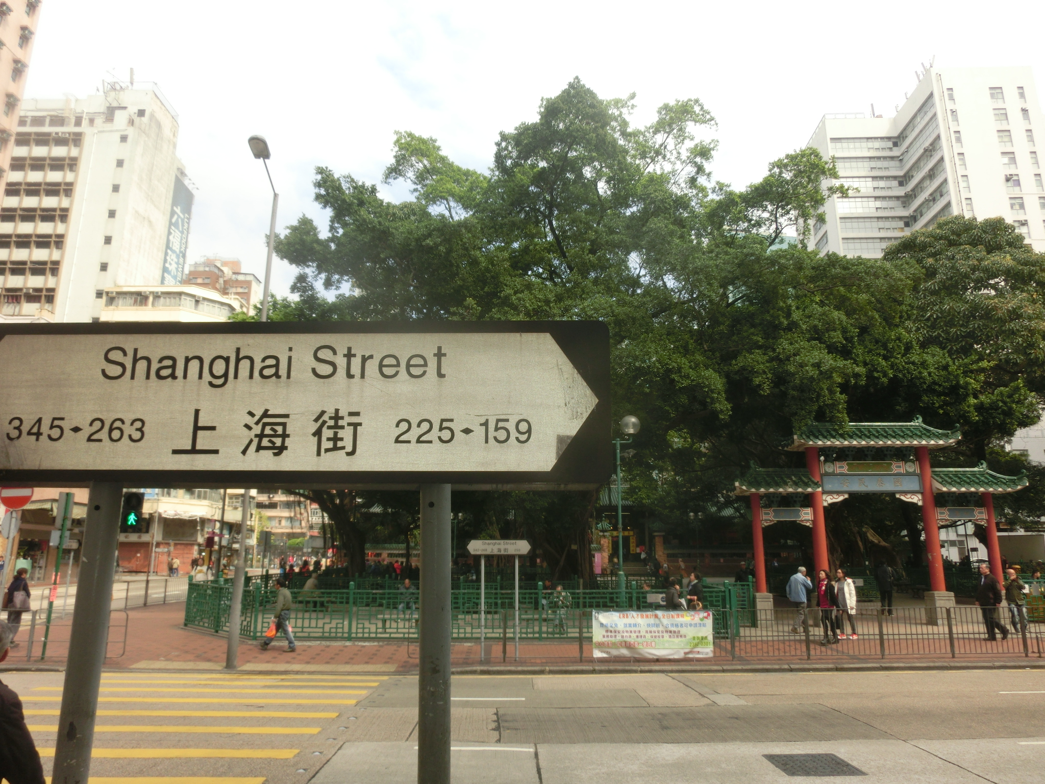 上海街, Shanghai Street, Yau Ma Tei, Hong Kong